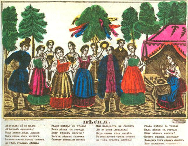 Semik. Russian lubok.